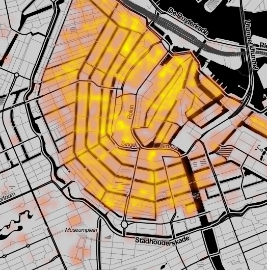 Heat map of Amsterdam based on a set of coordinates of historic buildings with a OpenStreetMap background